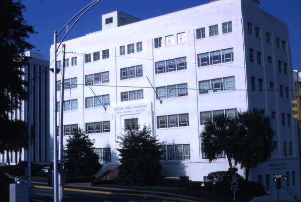 View of the Nathan Mayo Building - Tallahassee, Florida.